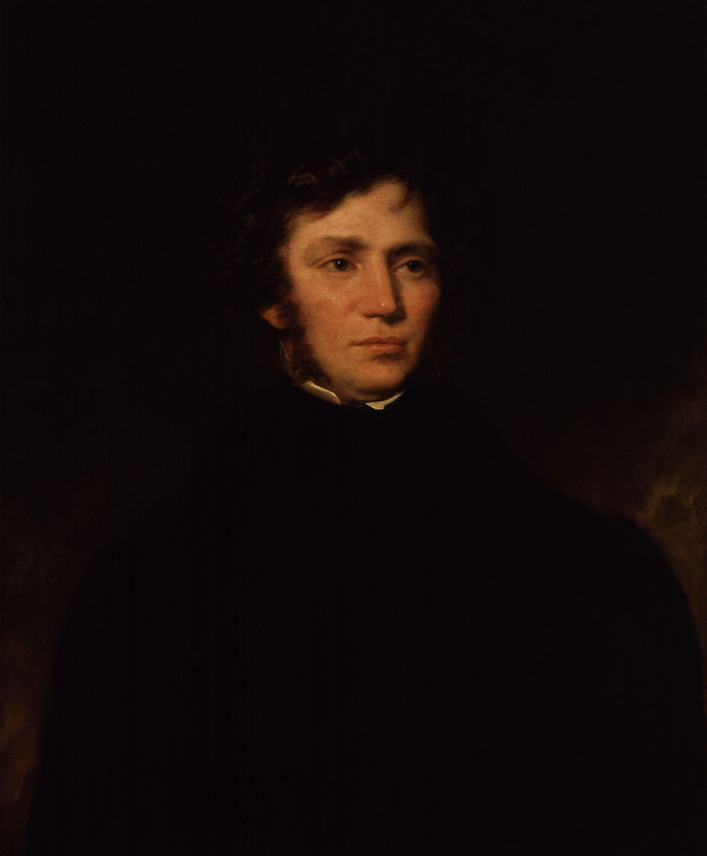 Clarkson Stanfield (3 December 1793 – 18 May 1867) was a prominent English marine painter